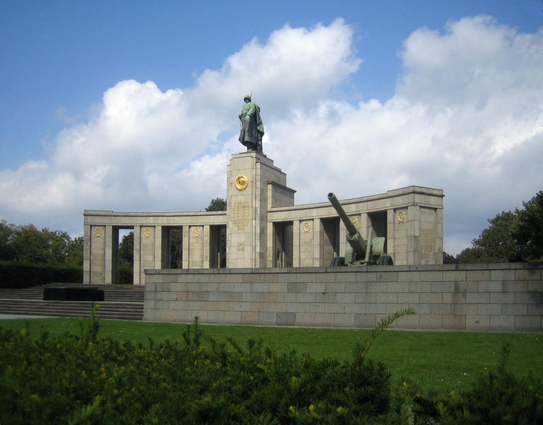 Berlin-Tiergarten, memorial for Soviet soldiers, who died in Berlin in the last days of World War II. General view.